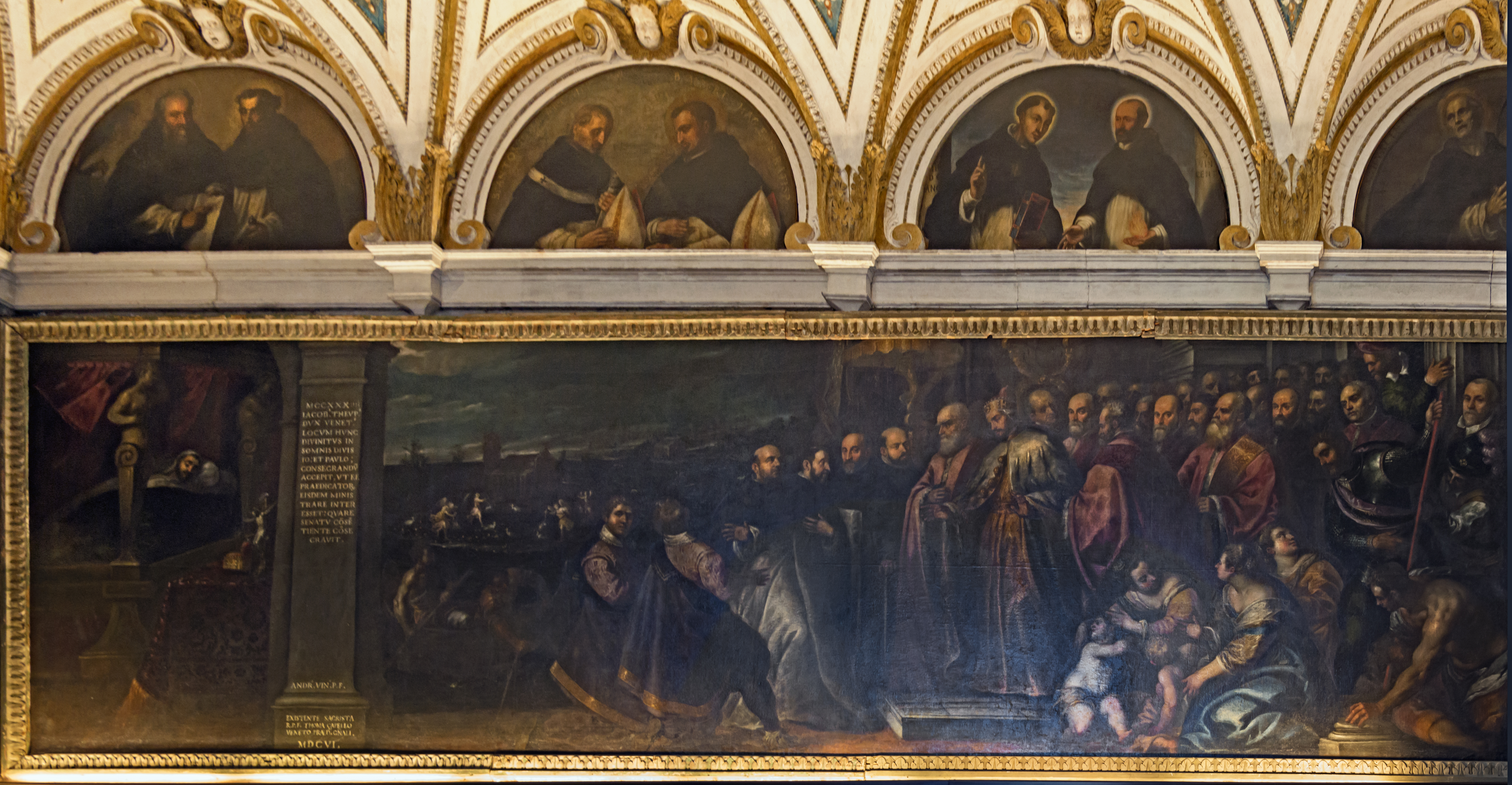 Santi Giovanni e Paolo in Venice. Sacristy - Andrea Vicentino, the dream of the Doge Jacopo Tiepolo and the donation of the land of the Basilica (1606). Above: Gian Sisto of Laudis, Dominican Portraits (v.1610)